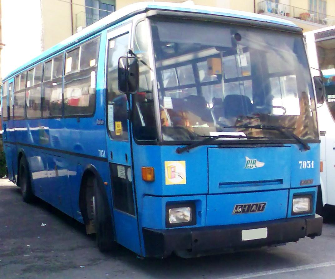 Fiat 370